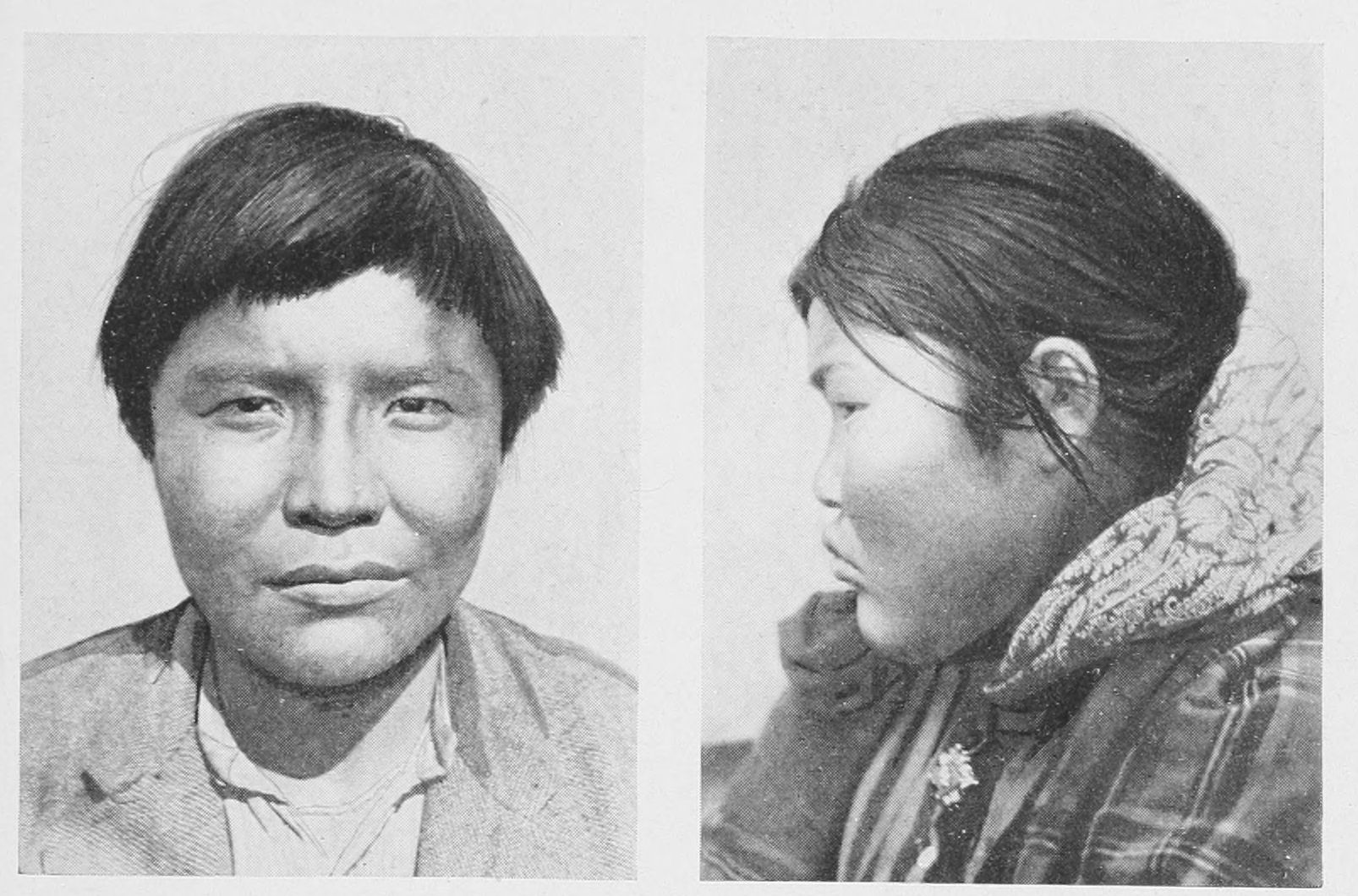 Fig. 89 (upper). Loucheux Man and Woman showing Eskimo Characters. Boas, 1901.